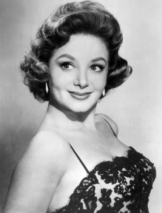 Publicity photo of Cara Williams from the television program Alfred Hitchcock Presents.